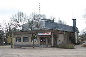 Movie theatre Kino Sampo in Riihimäki, Finland